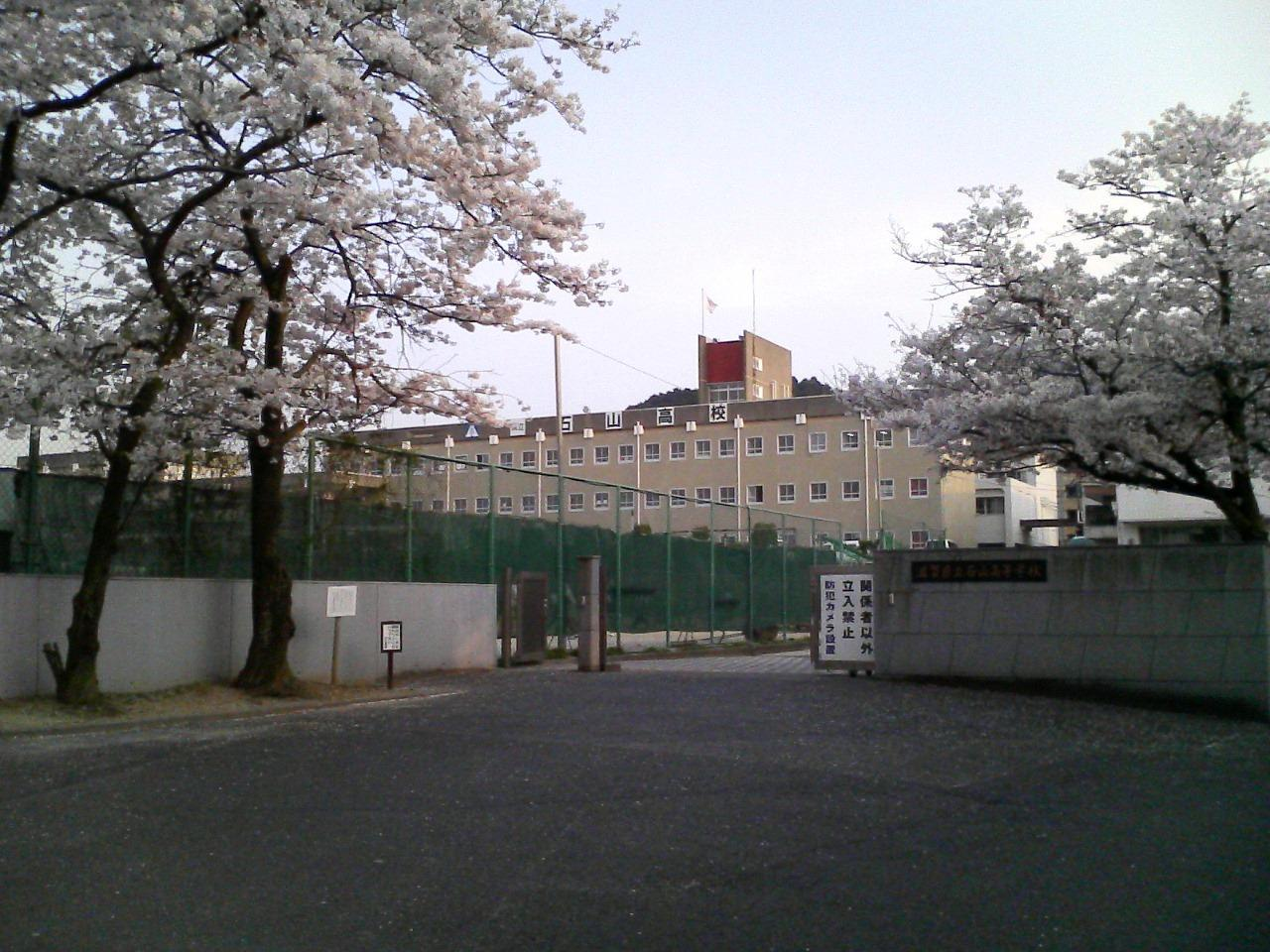 Ishiyama senior high school